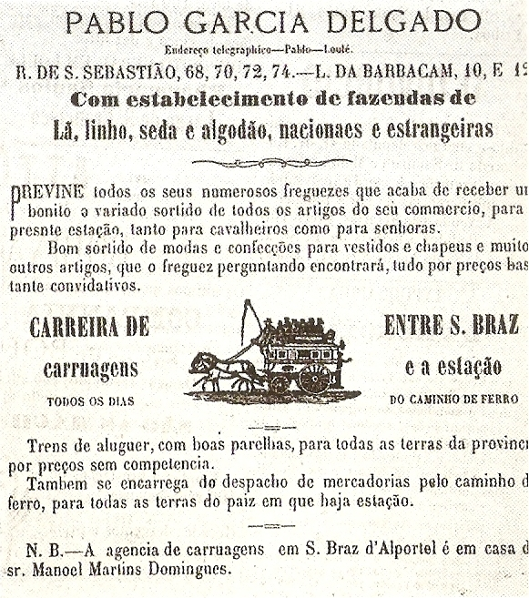 Advertisement for the stagecoach service between the towns of São Brás de Alportel and Loulé and the Loulé Railway Station, in Algarve, Portugal. This advertisement was originally published in the newspaper "O Pregoeiro", on the 11th January 1900.